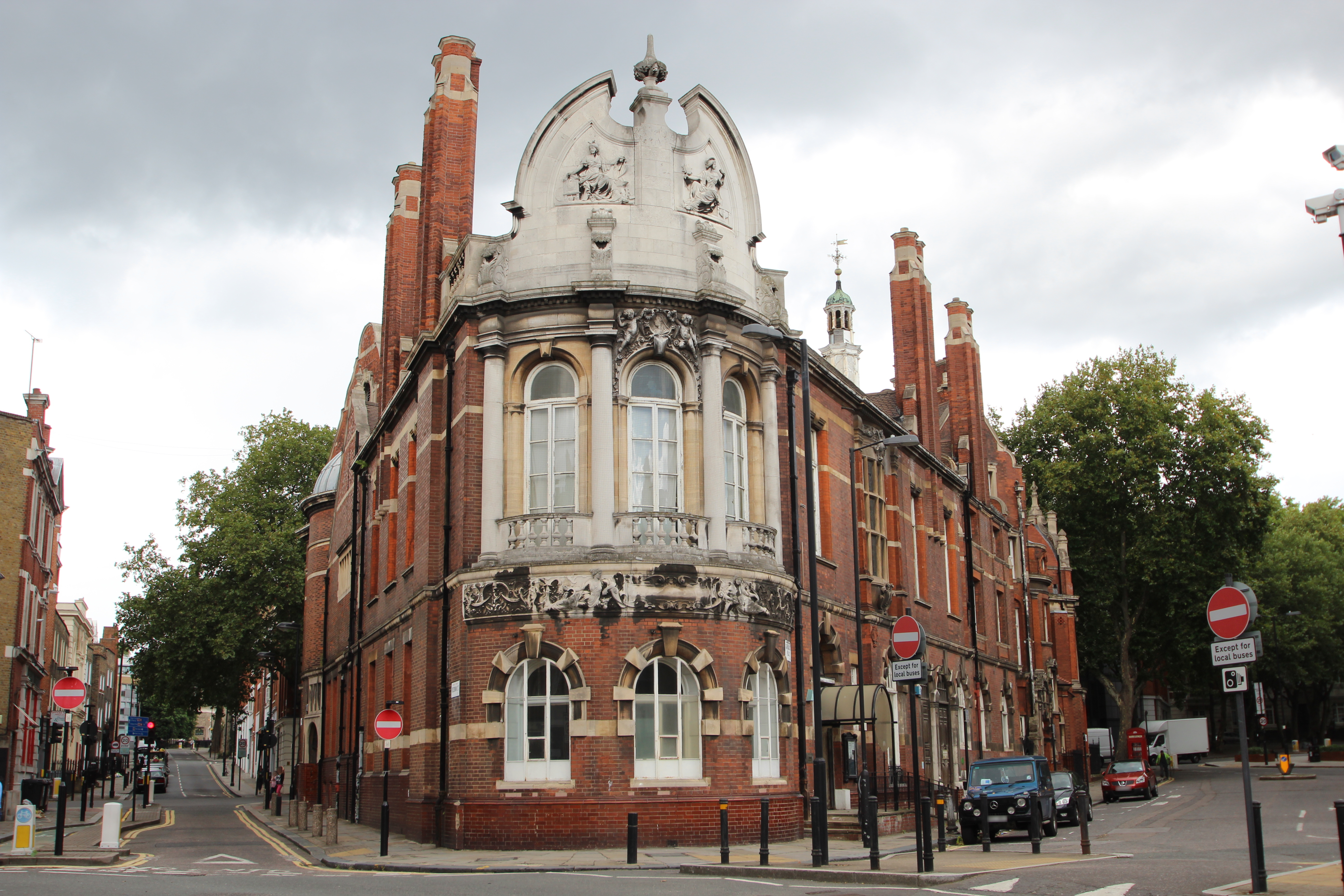 Finsbury Town Hall in the Borough of Islington in London, England. - Google Maps - Google Earth